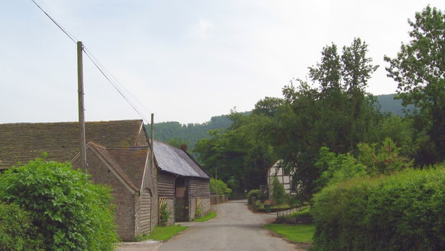 Knill 2008